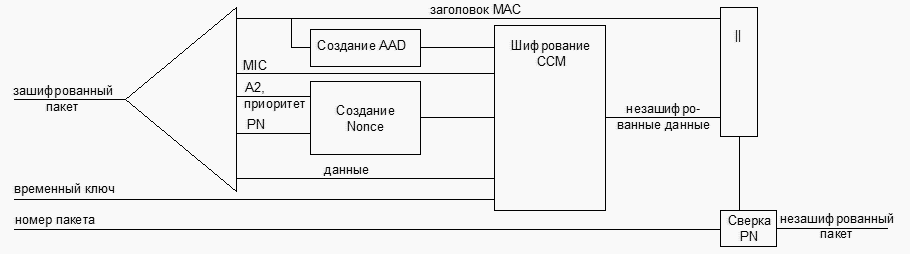 Ccmp decryption scheme